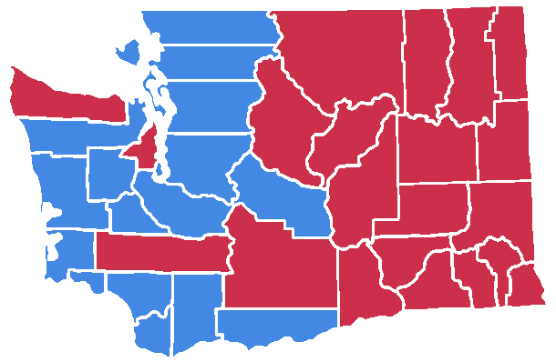 Washington state senate election map by counties